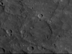 TakayoshI crater on Mercury. Cropped from Mariner 10 image 0167015.